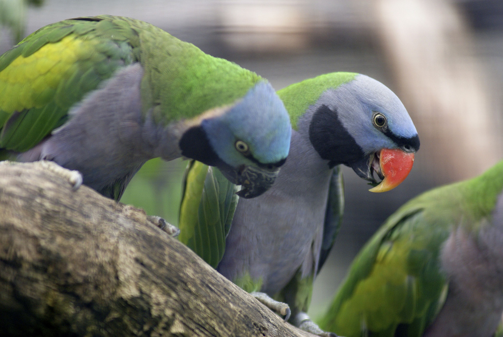 A pair of Lord Derby's Parakeet (also known as Derbyan Parakeet)s at Wilhelma Zoo, Stuttgart, Germany.